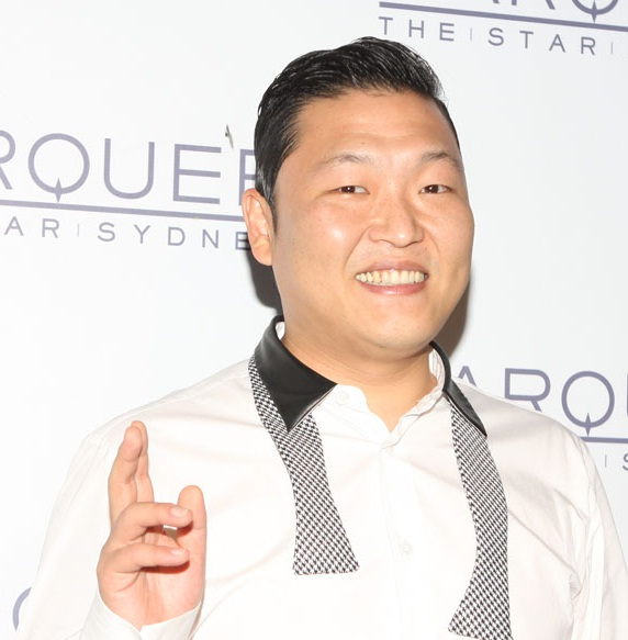 Psy Gangnam Style performs at Marquee, The Star, Sydney, Australia Korean rap music sensation Psy (Park Jae-Sang) performed at Sydney's famous Marquee nightclub at midnight last night. It was obvious one or two VIP's and high rollers were in town, with police having a strong presence in and around the one time casino - now more an integrated entertainment and gaming hub, complete with nightclubs and entertainment attractions a plenty. The only thing - person Marquee Sydney and The Star was missing was Psy, and now that's complete how will they top that! We hear maybe with KISS, The Rolling Stones and / or Blondie and Pink, but that's just rumour at this stage... but do expect at least one of those big time acts to follow in Psy's footsteps. The music video for "Gangnam Style" is the most viewed K-pop video on YouTube, and also the most "liked" video on the site. Published on July 15, 2012, the video has over 480 million views, and more than 4.1 million "likes." Psy has appeared on numerous television programs, including The Ellen DeGeneres Show, Extra, Good Sunday: X-Man, The Golden Fishery, The Today Show, Saturday Night Live and Sunrise. Stay tuned and don't change your dial for more hot news on Psy and more of the world's top entertainment attractions. Websites Psy official website Marquee Sydney Eva Rinaldi Photography Flickr Eva Rinaldi Photography Music News Australia